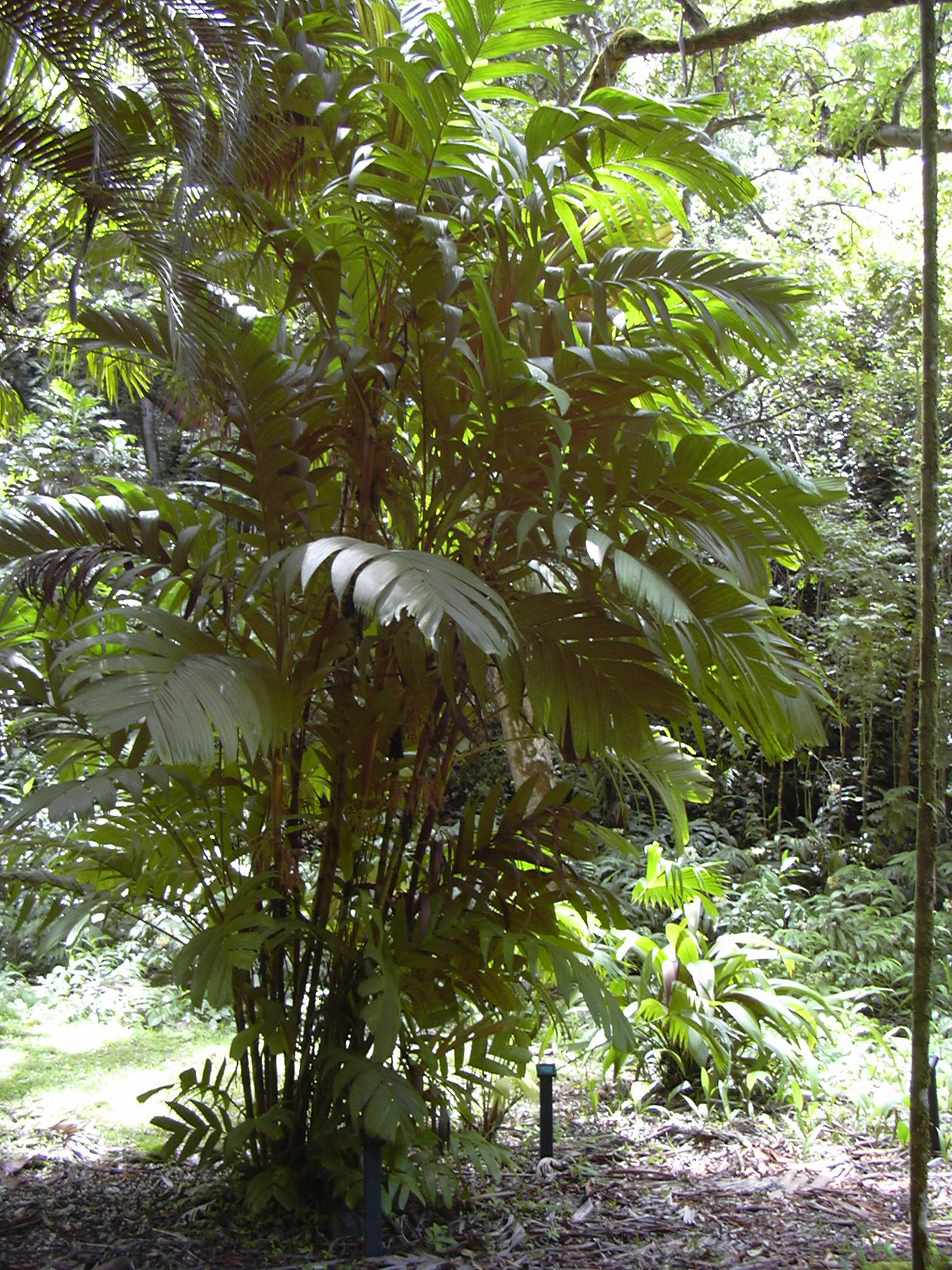 Pinanga kuhlii (habit). Location: Maui, Keanae Arboretum